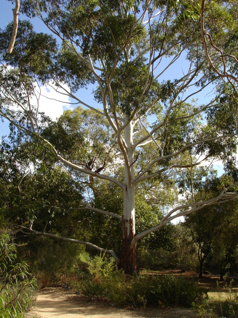 Photographed at Maranoa Gardens, Melbourne, Victoria, Australia by HelloMojo 08:15, 6 April 2007 (UTC)